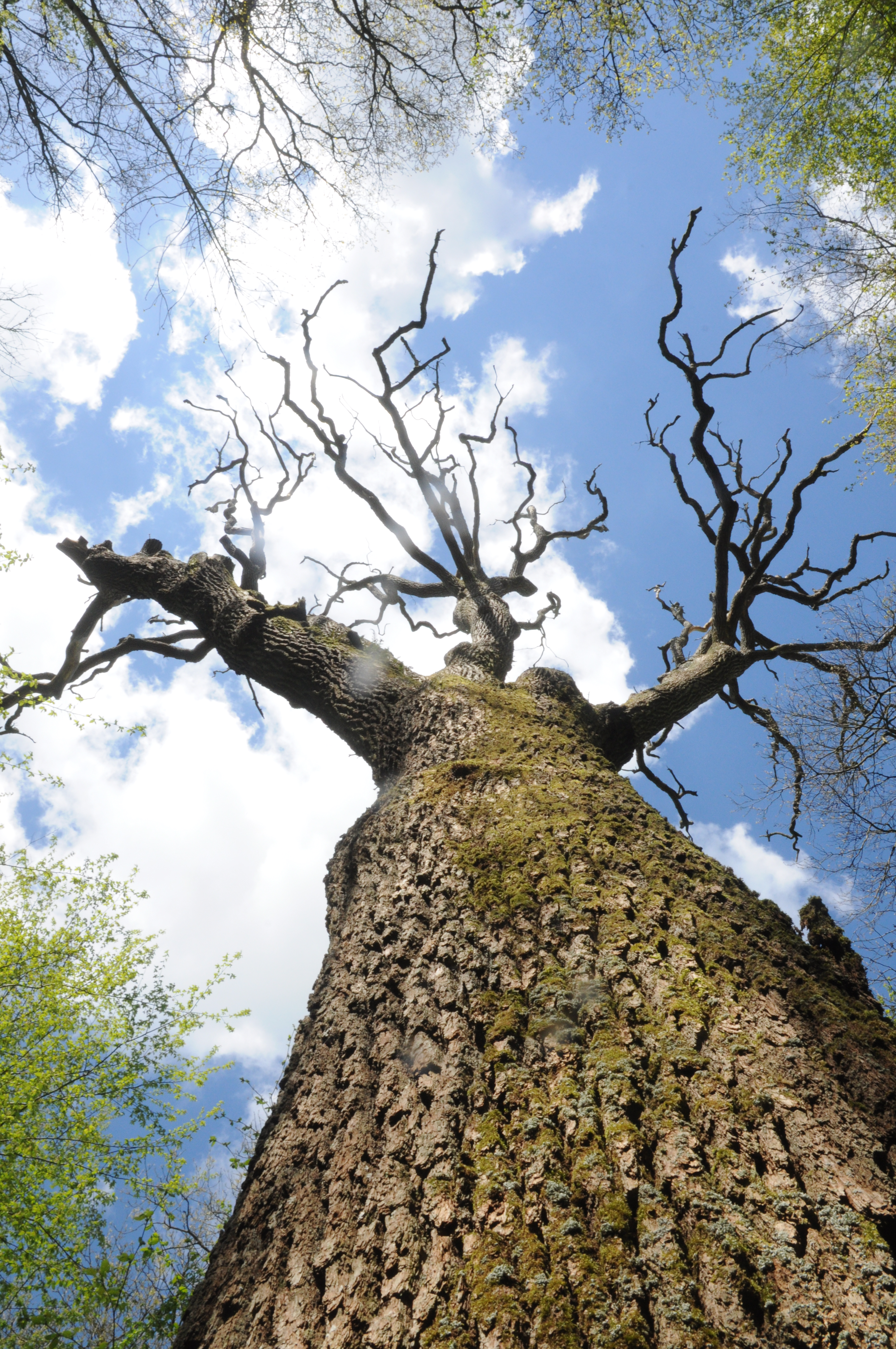 Chêne historique dit "Chêne à 8 bras"